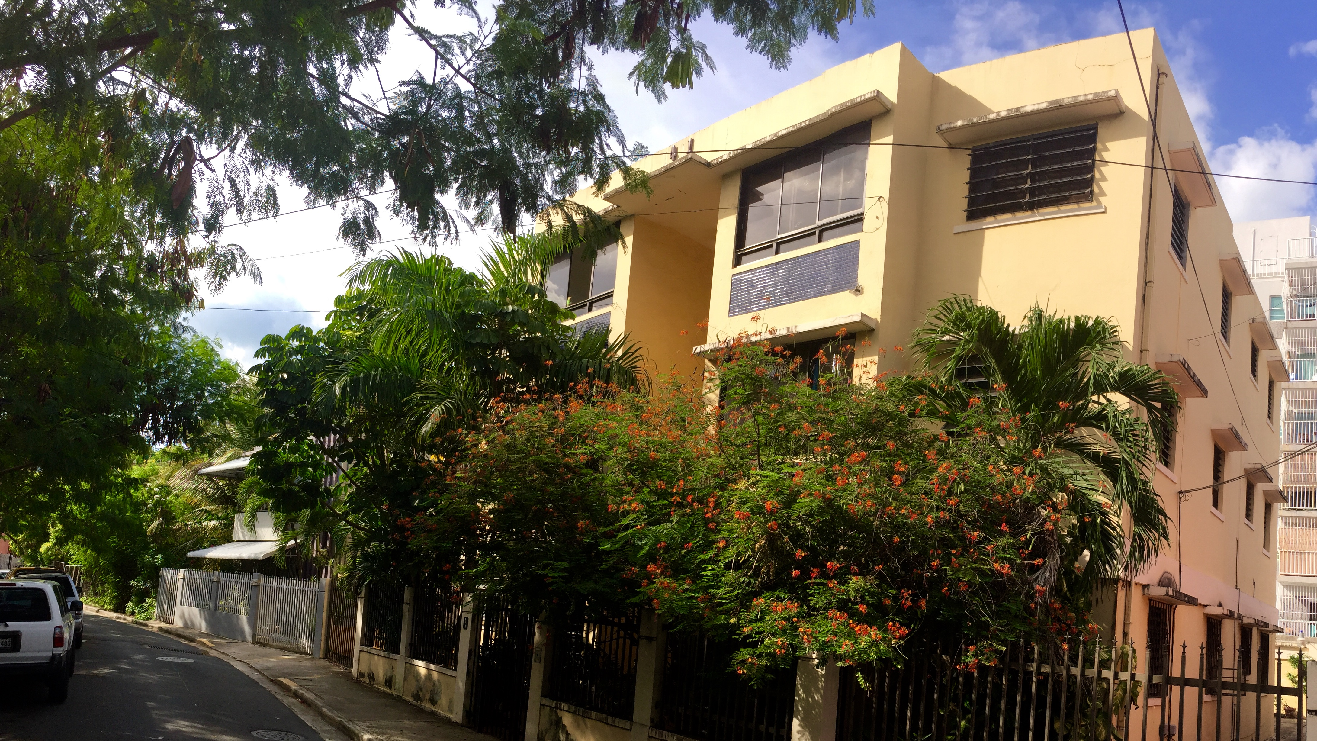 Quiet section of Santurce